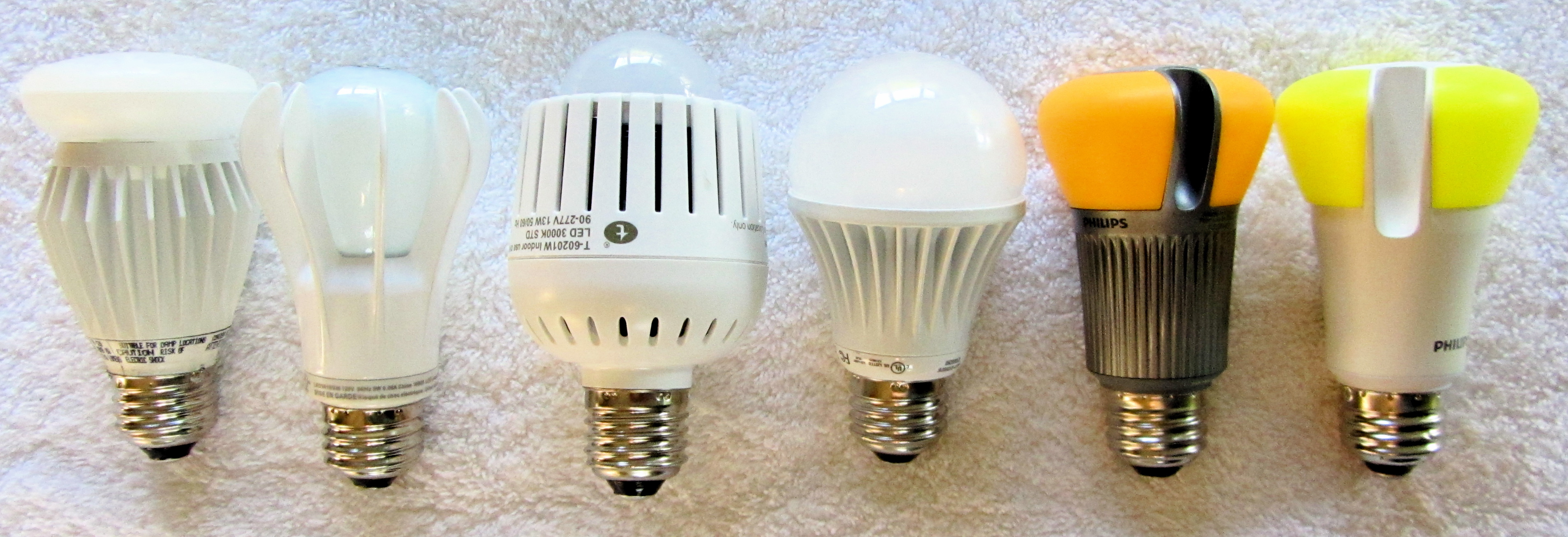 Some of the LED lightbulbs available to the consumer as screw-in replacements for standard incandescent bulbs. Photo by Geoffrey A. Landis, uploaded by the photographer. From left to right: Ecosmart A19 bulb, GE "Energysmart," EvoLux, ZetaLux-2 Pro, Philips "EnduraLED," Philips L-Prize bulb.